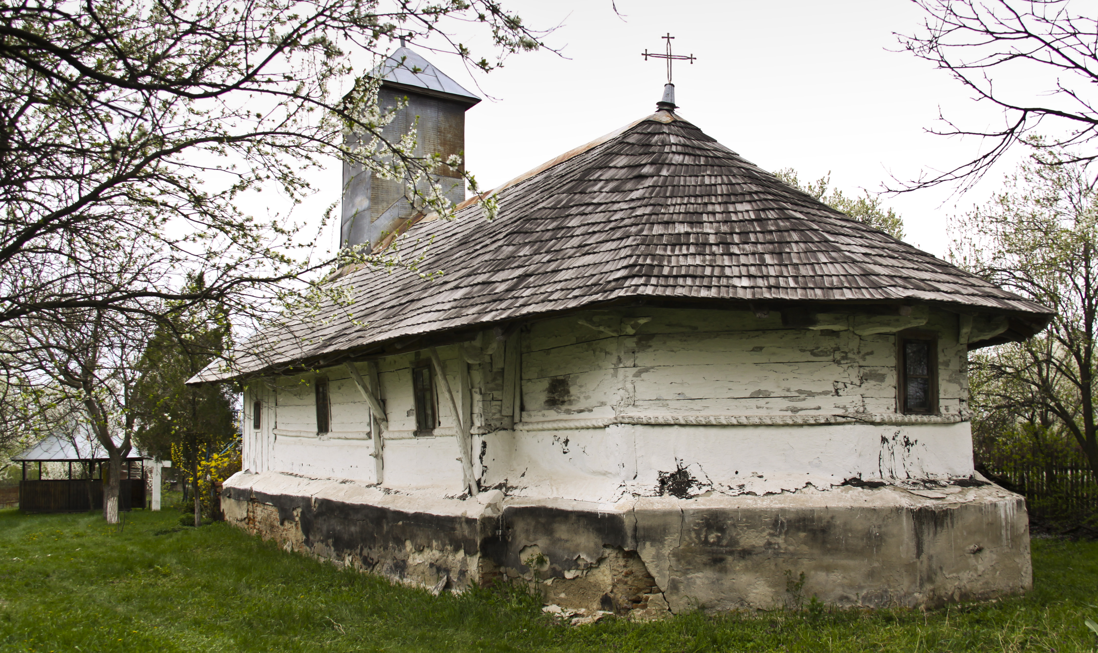 Sârbenii de Jos, Teleorman county, Romania: the wooden church.